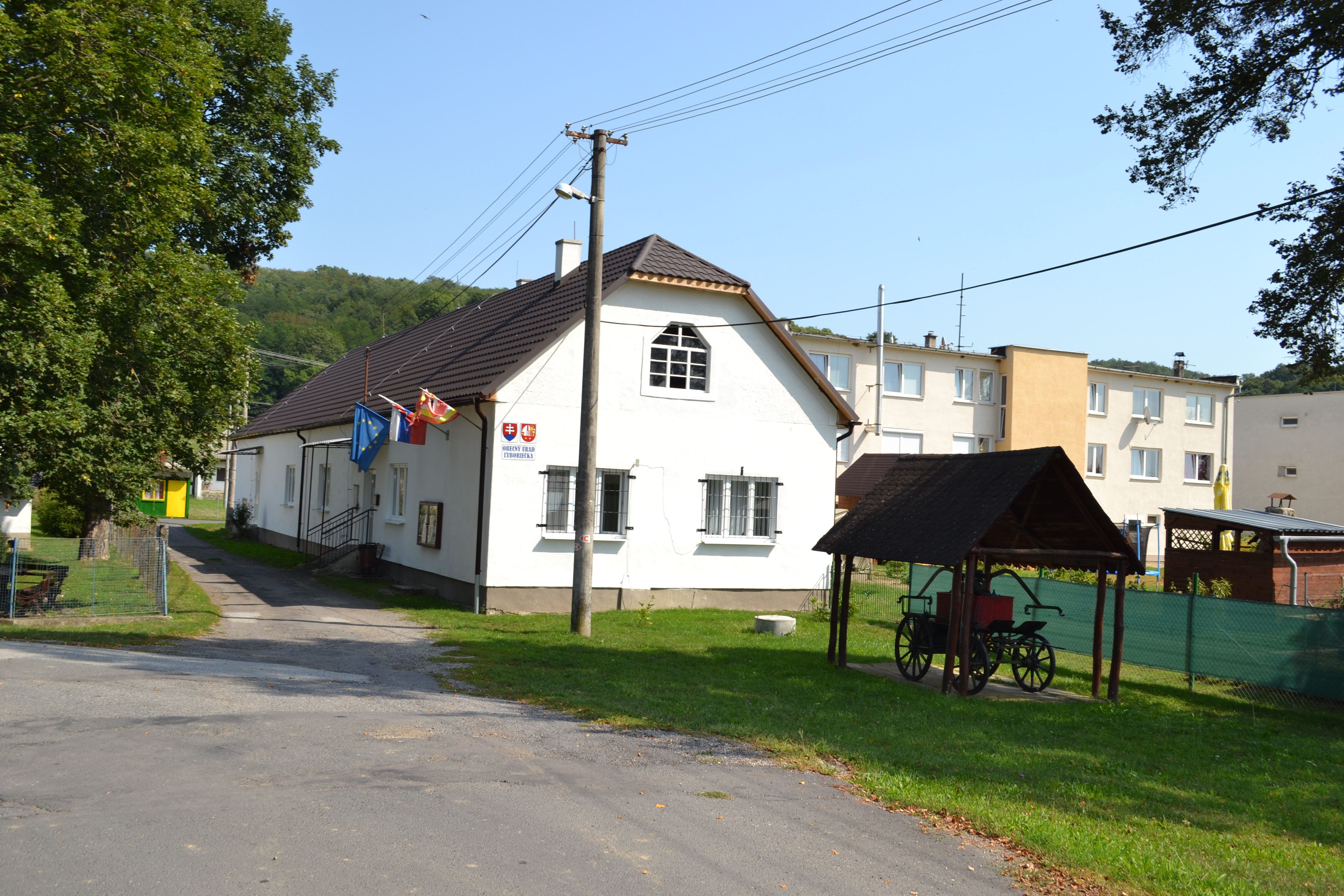 Municipal Office in the village Ľuboriečka